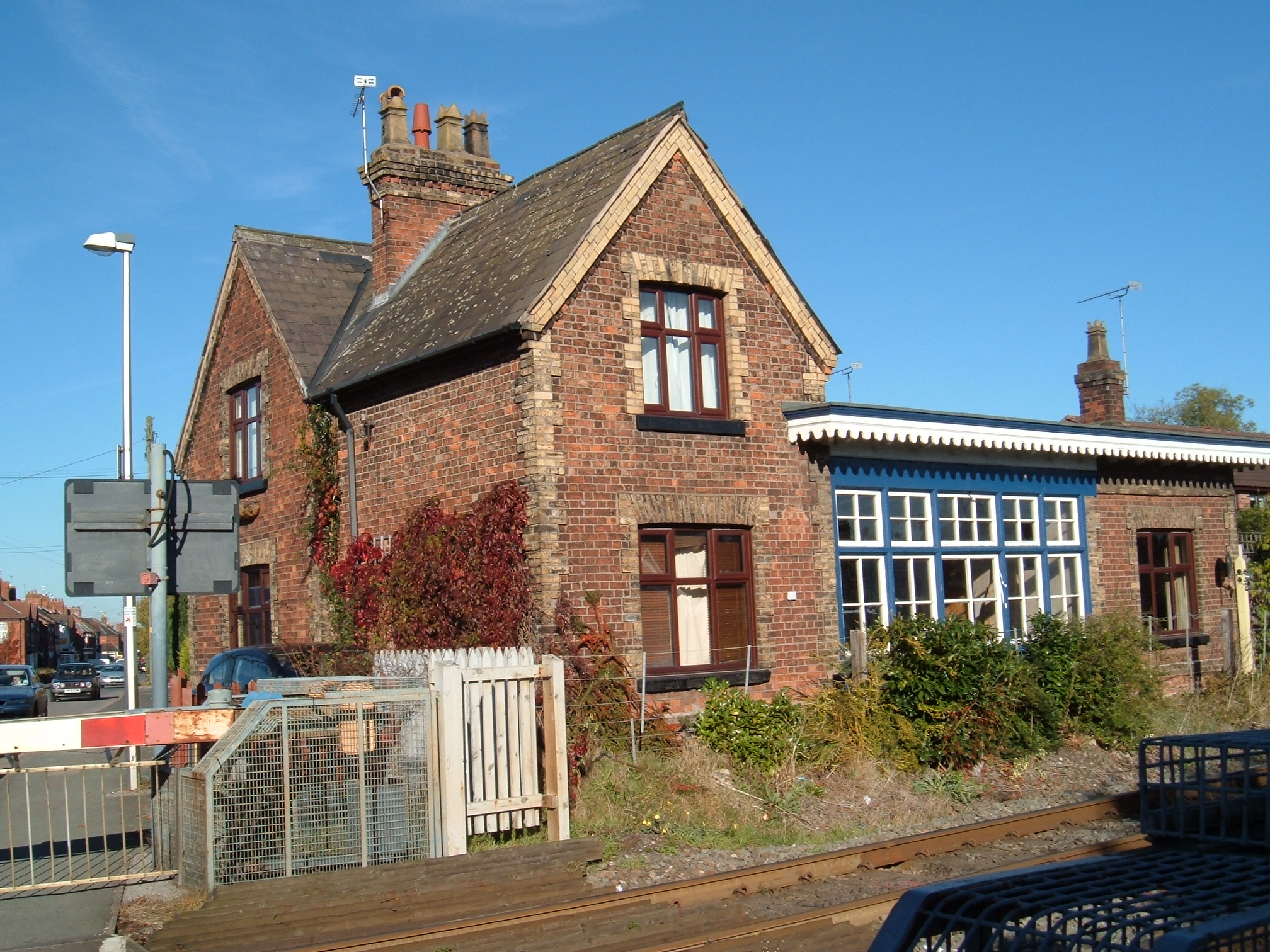 Disused railway station at Willaston near to Crewe